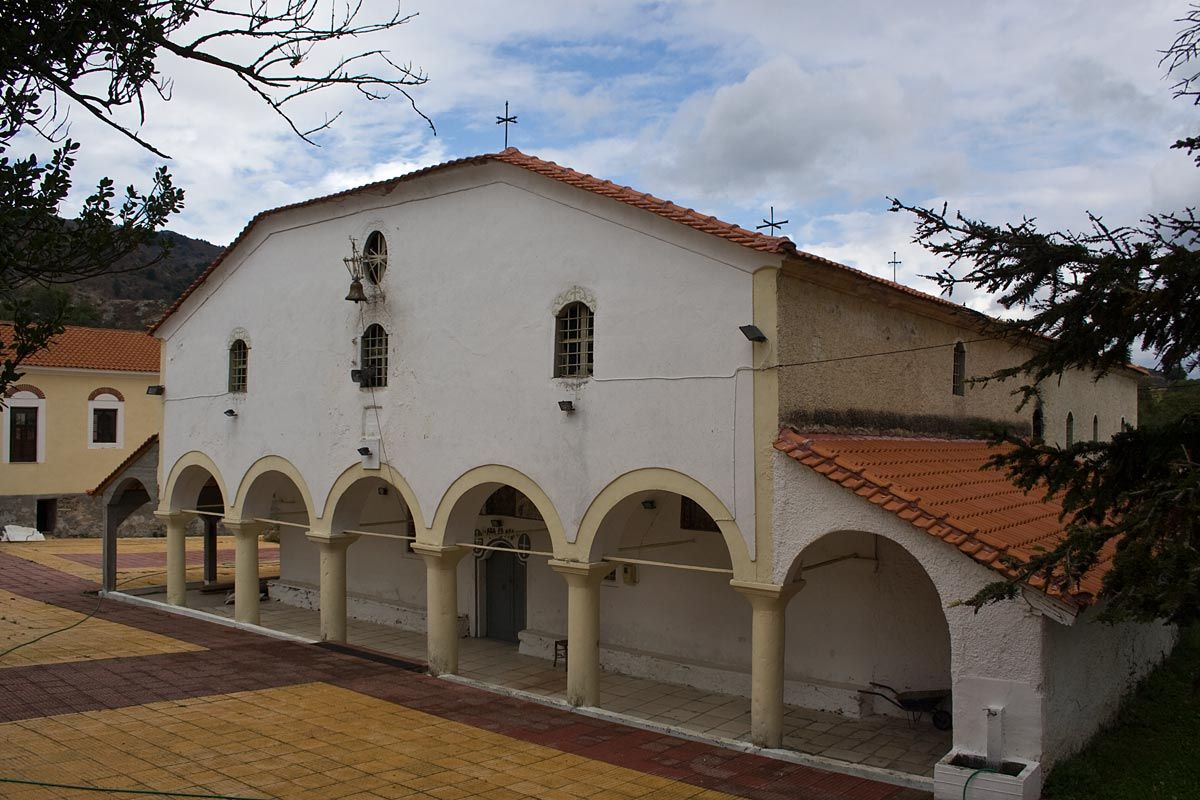 Church of "Saint Demetrius" in Ano Vrondou/Gorno Brodi, Aegean Macedonia, Greece